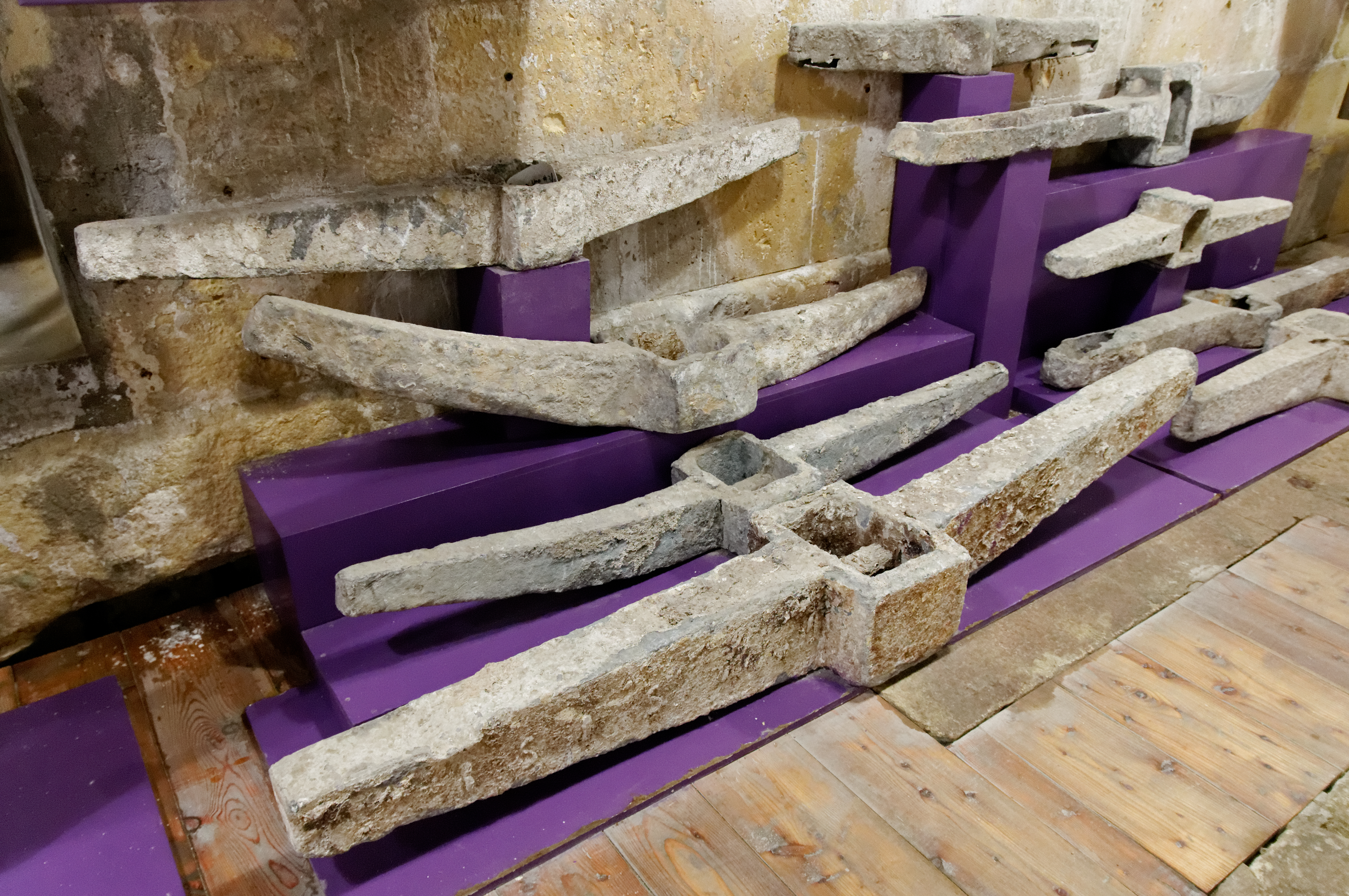 Ancient Roman anchors found in Maltese waters.